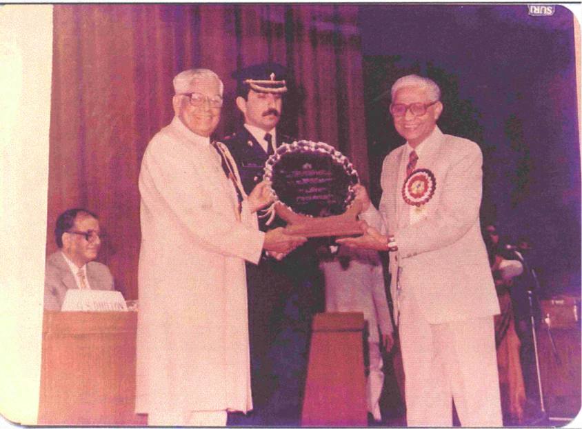 Dr. Bhagabat Panda receiving the National Productivity Award from the President of India, Mr. R. Venkataraman, at New Delhi, on January 14, 1988, for excellence in research, training and education at the Central Avian Research Institute, Bareilly (UP), India.